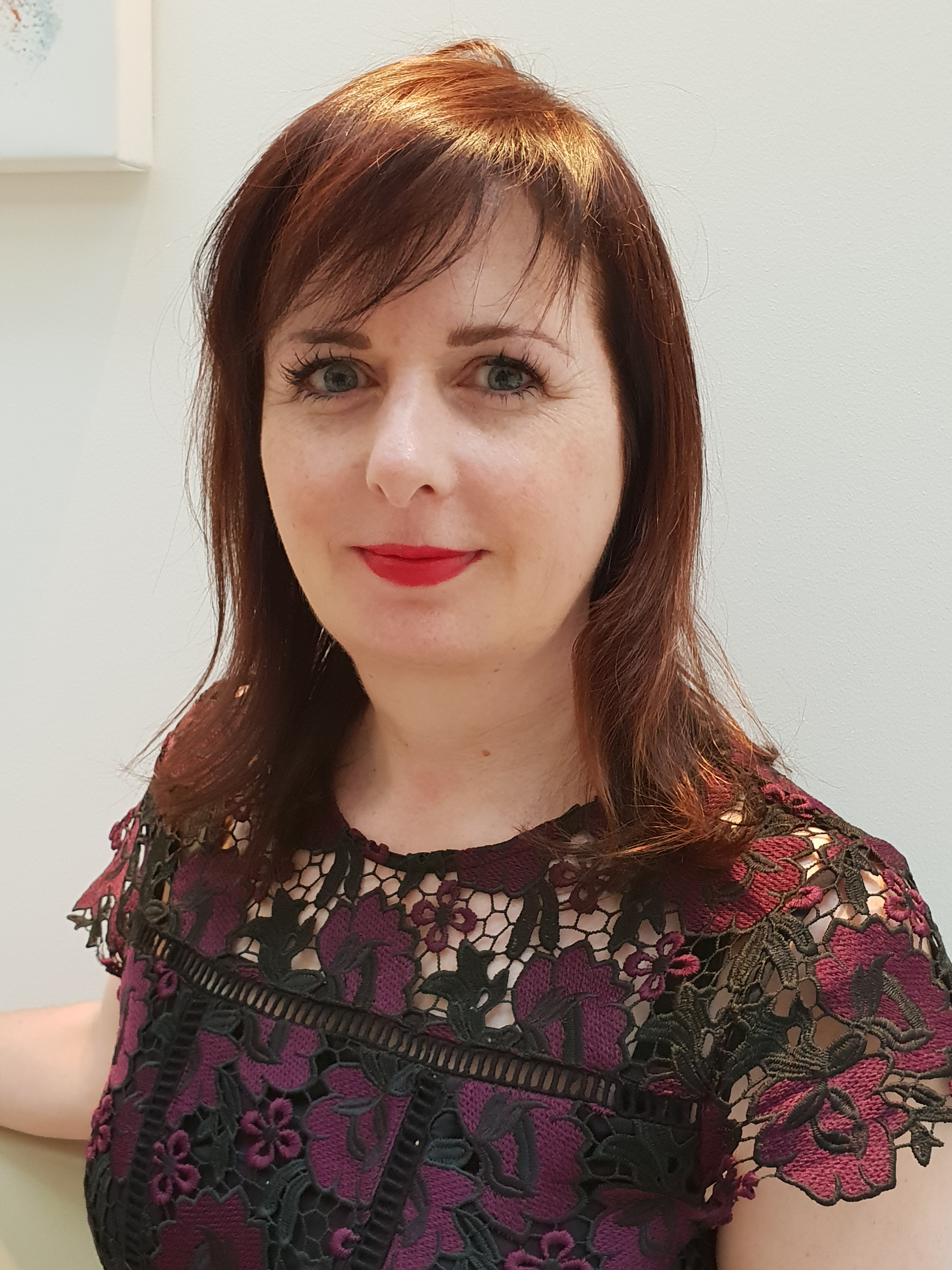 An image of Judith Clegg British strategy consultant, technology entrepreneur, and angel investor